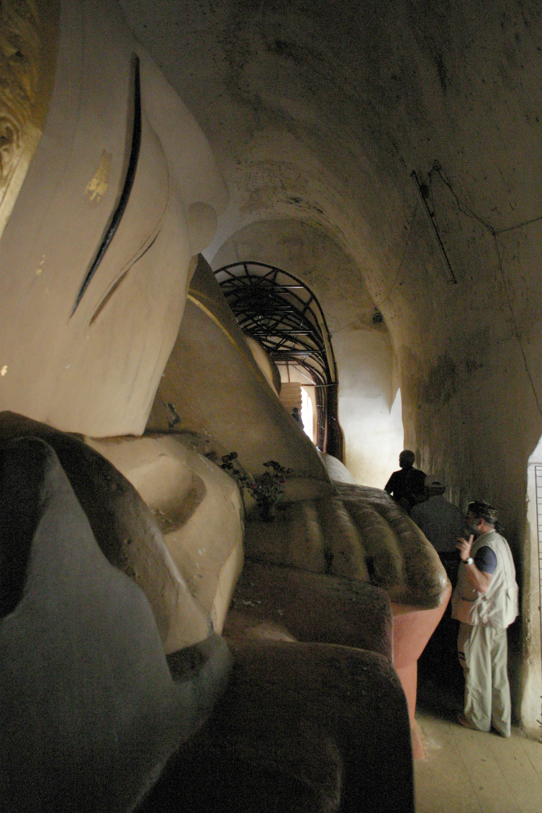 Manuha temple, Bagan, Myanmar.